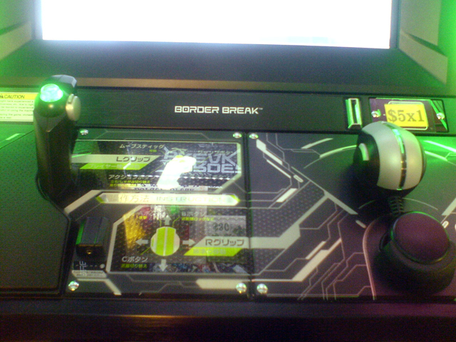 Arcade Game "Border Break" Controller